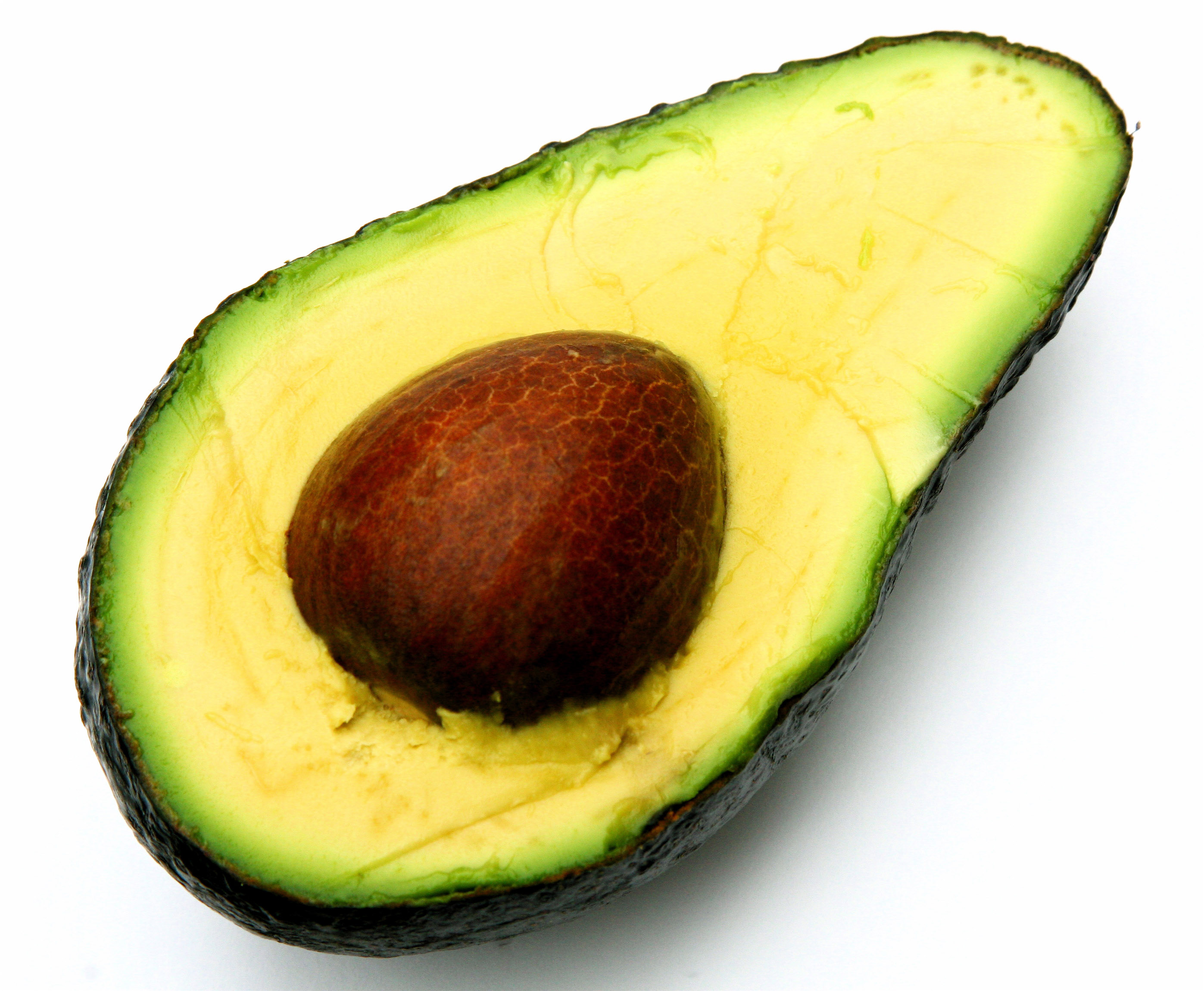 avocado open